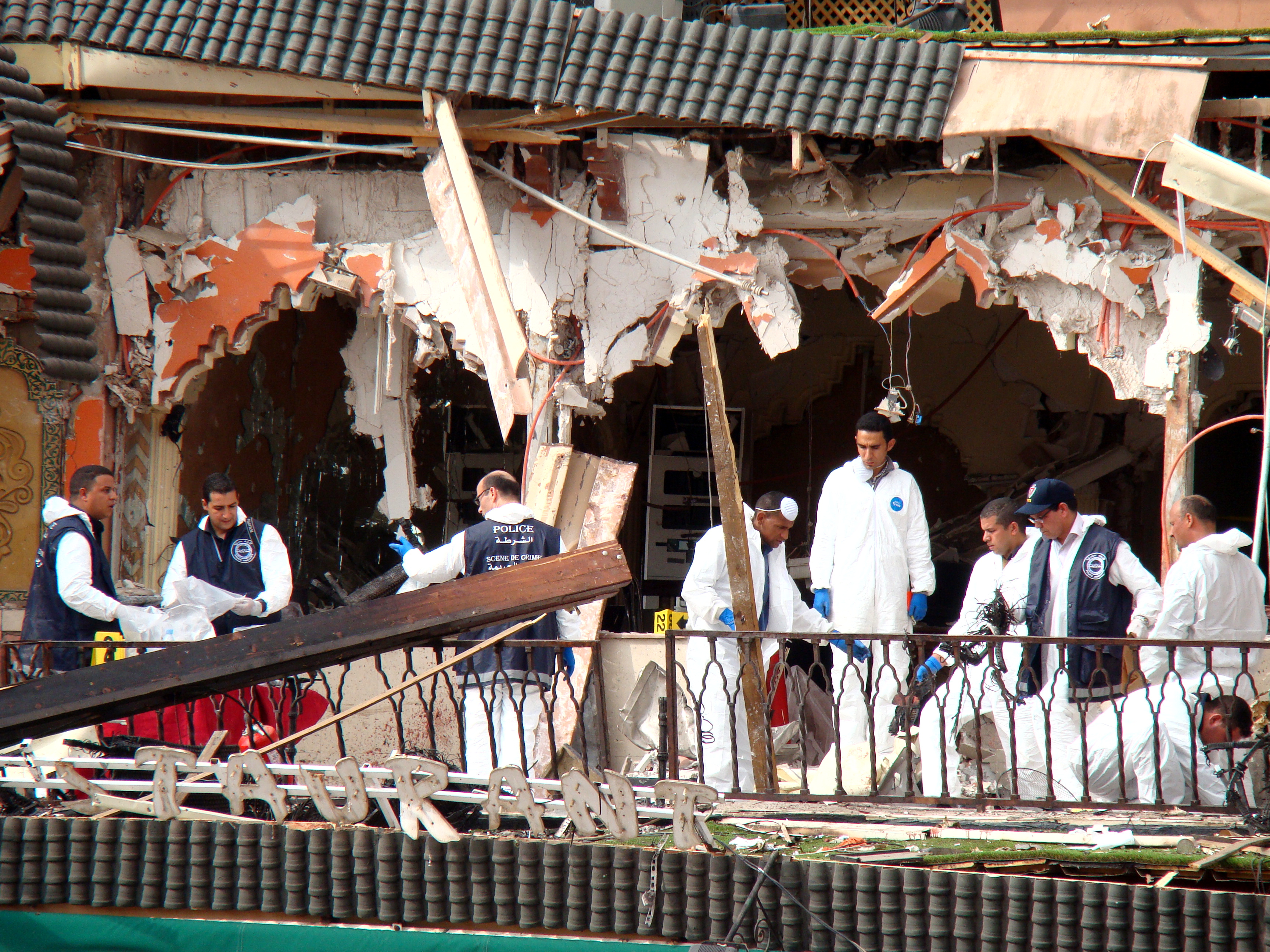 Police investigating the site of the Marrakech suicide bombing where 17 people died on 28 April 2011. The photo was taken just a few hours after the incident.